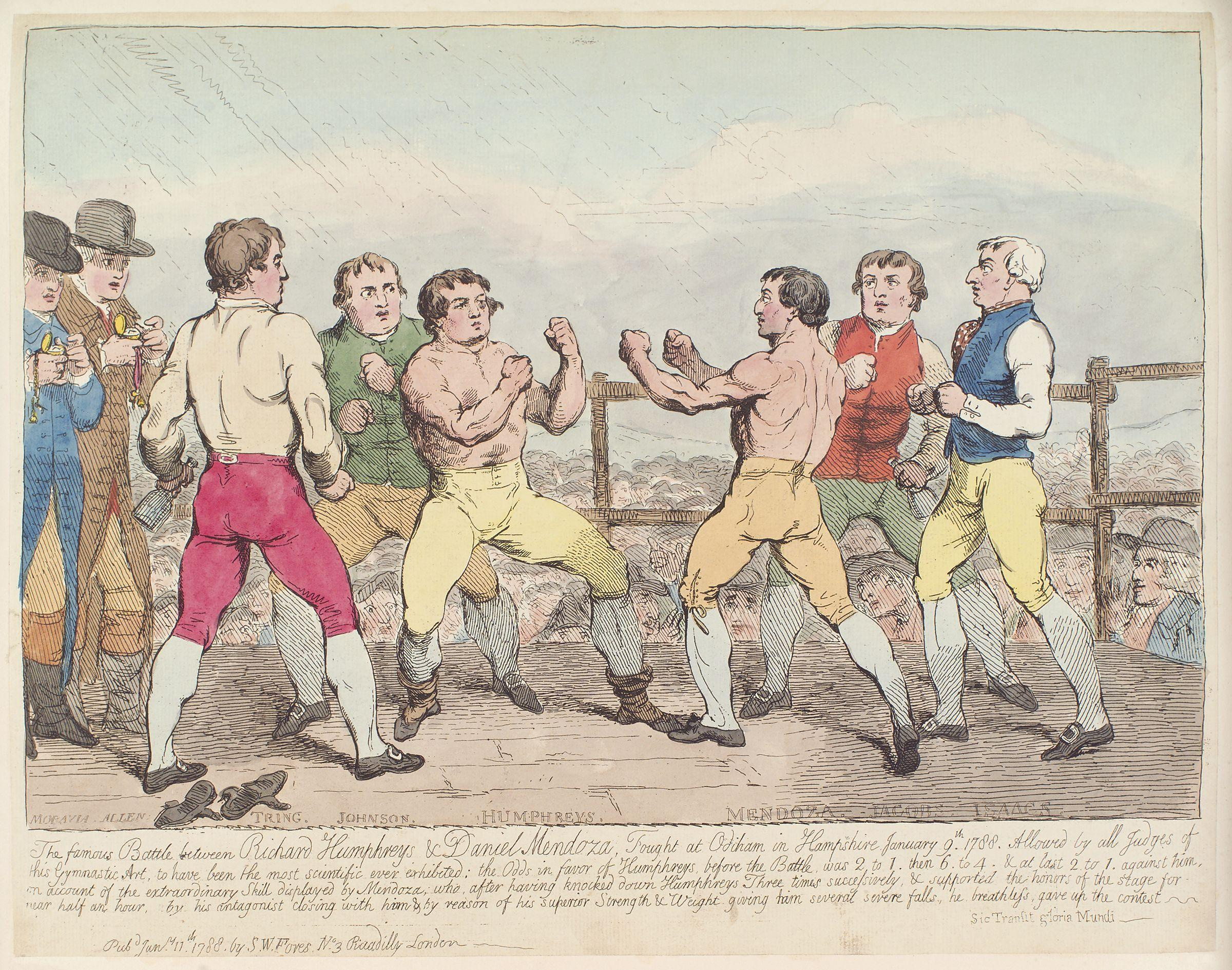 The famous battle between Richard Humphreys and Daniel Mendoza...' (Richard Humphries; Daniel Mendoza), by Samuel William Fores (floruit 1841), published 1788. According to the NPG's website the work was published prior to 1859, and so the author is reasonably presumed dead by 1939.